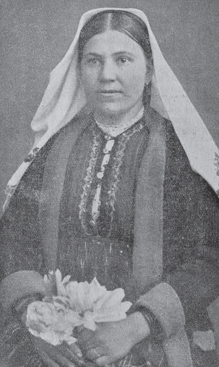 Woman cloth from Village of Gorno Nevolyani or Neolani, Florina